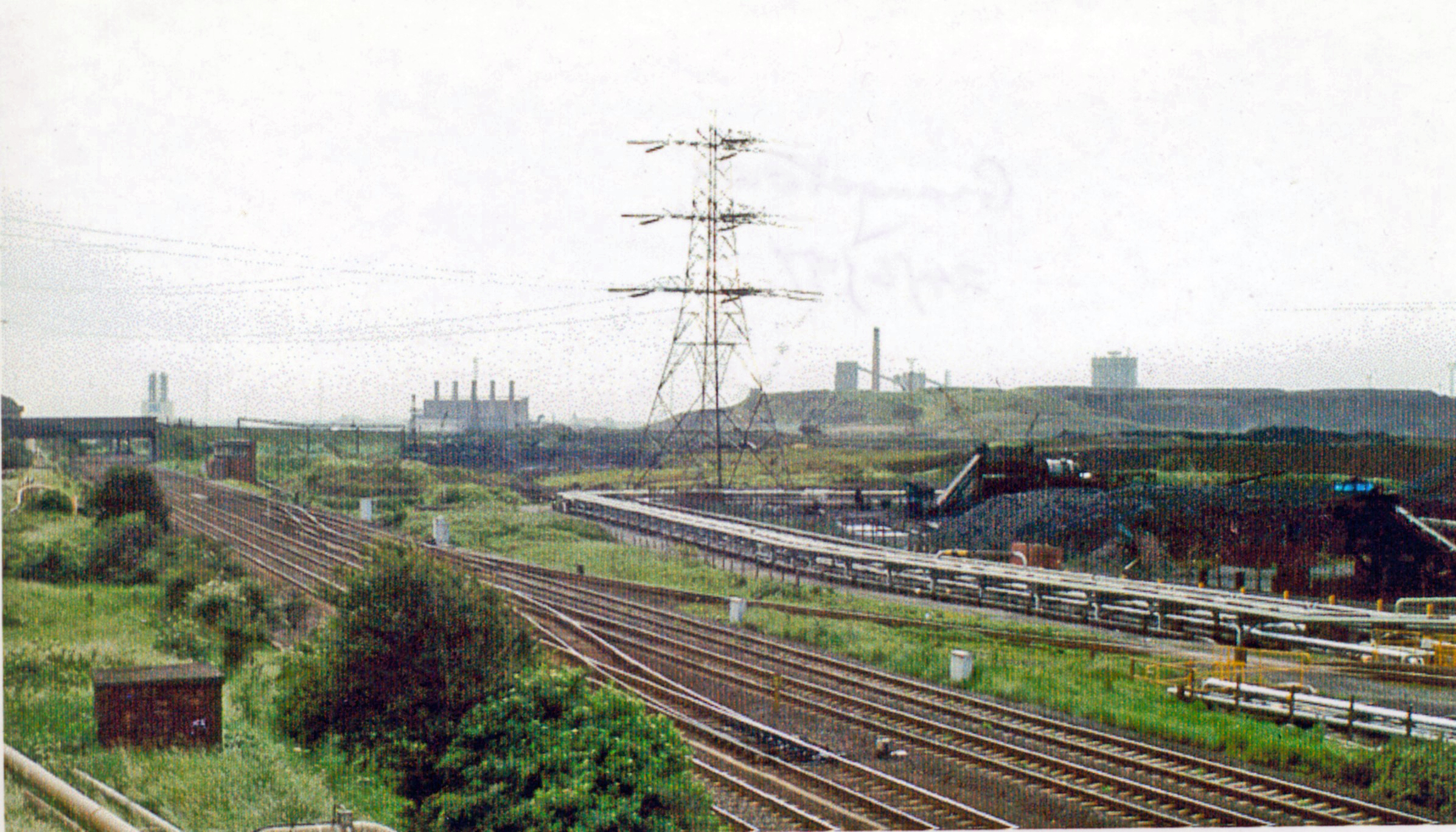 Tees-side industrial scene, Grangetown, 1997. View westward from the A1053 bridge over the railway east of the site of Grangetown station: ex-NER (Darlington) - Middlesbrough - Saltburn line. Until closed 25/11/91 Grangetown (Cleveland) station had been in the left distance. On the horizon are the Teesport refineries and chemical works.